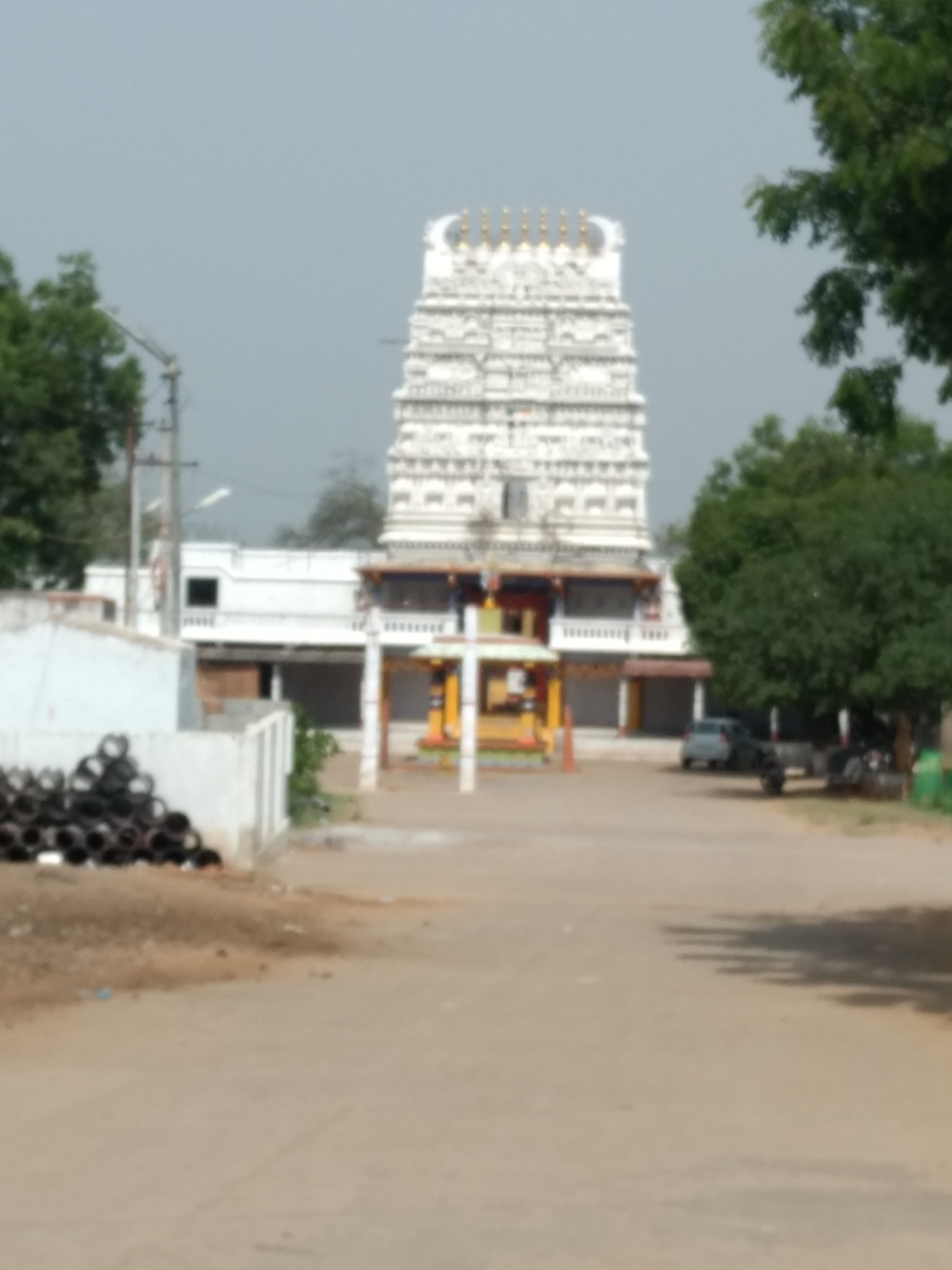 A timple situated in a village EDULABAD